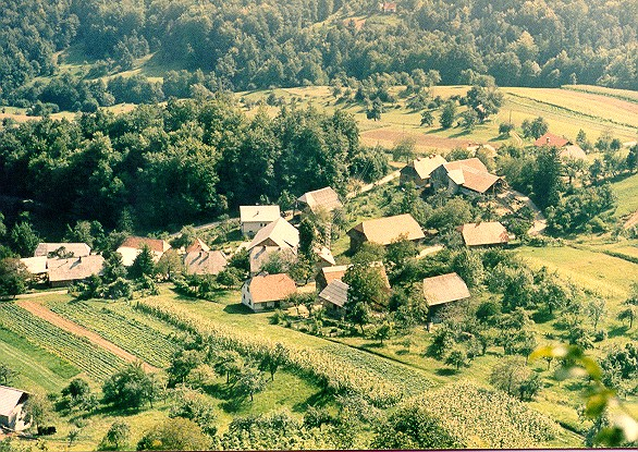 Village Podpeč near Šentvid